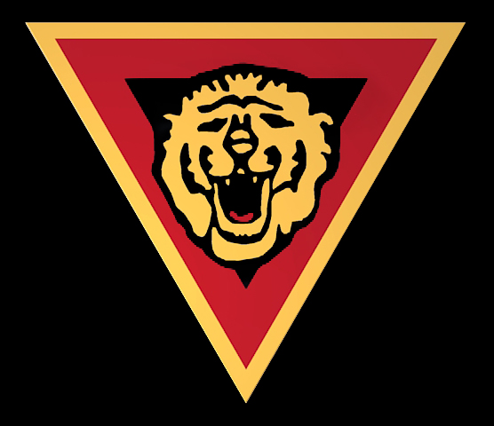 Badge of the Brigade Piron (until 1944) and the Belgian Secret Army